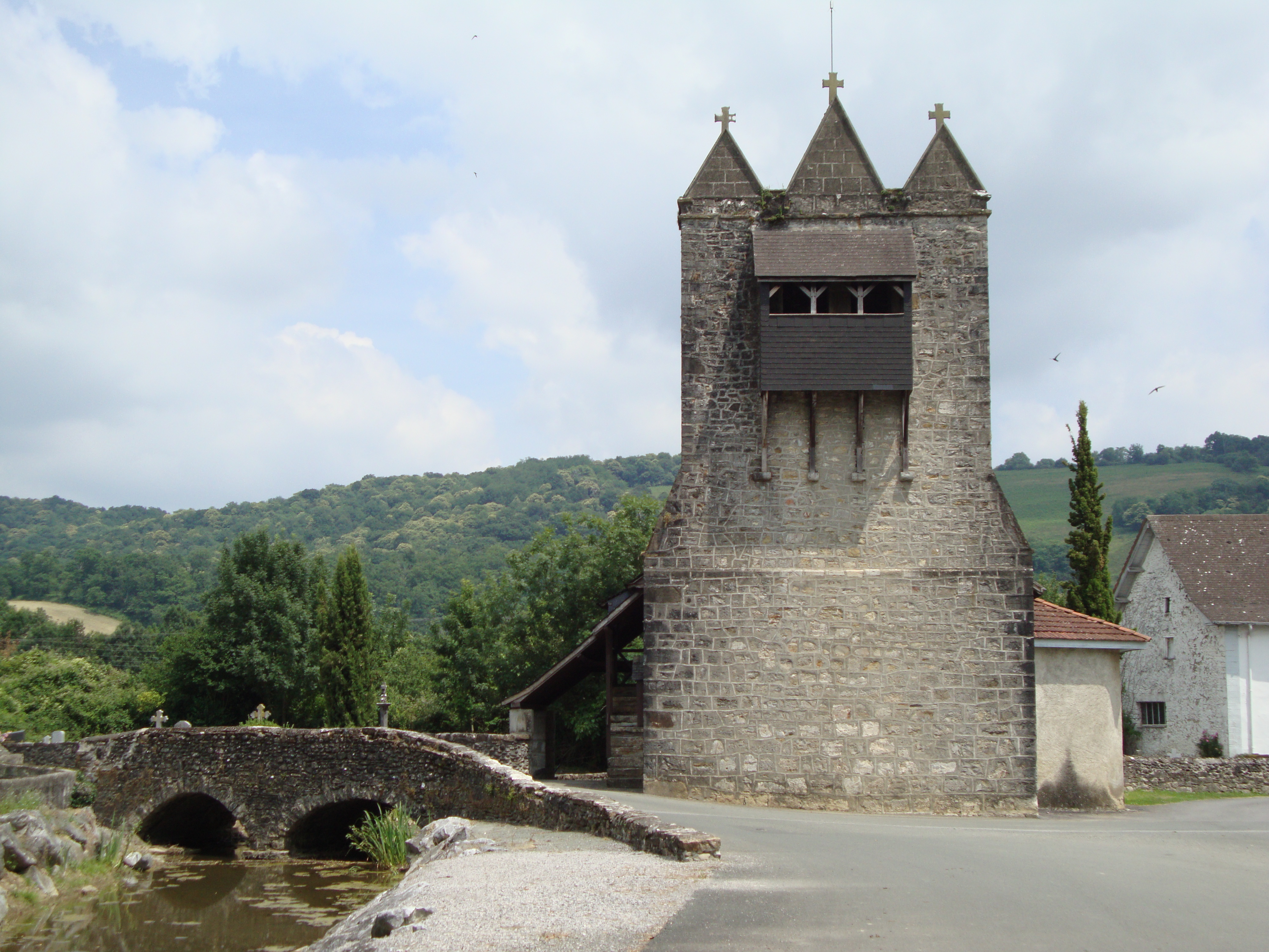 Abense-de-Bas (Viodos-Abense-de-Bas, Pyr-Atl, Fr) trinitarian church and bridge